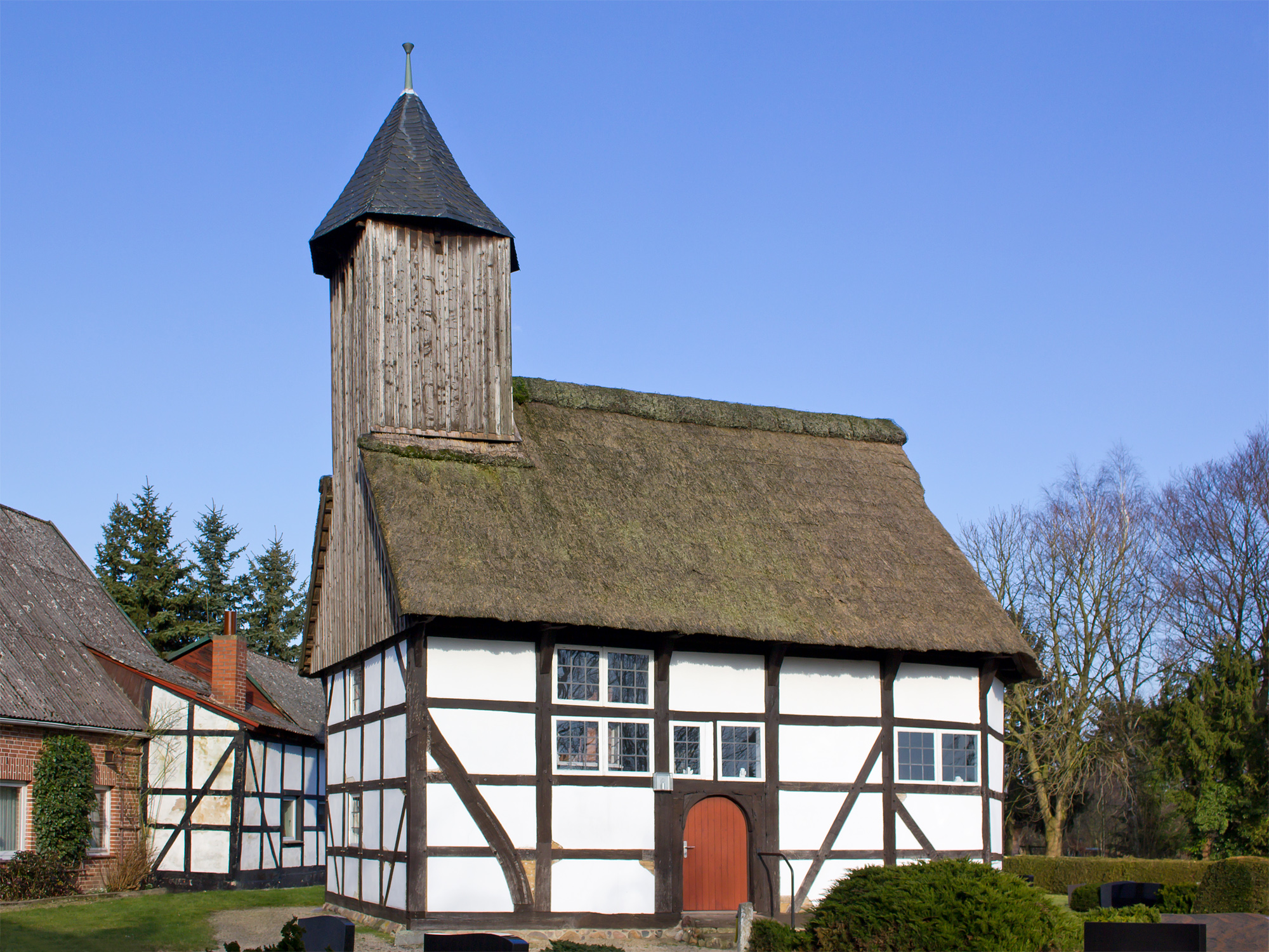 Chapel in the small village Gistenbeck (district Lüchow-Dannenberg, north-eastern Lower Saxony, Germany)